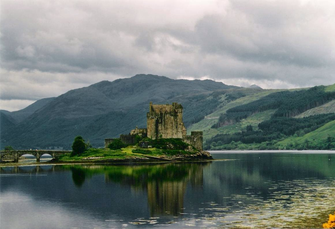 Eilean Donan Castle in Scotland.